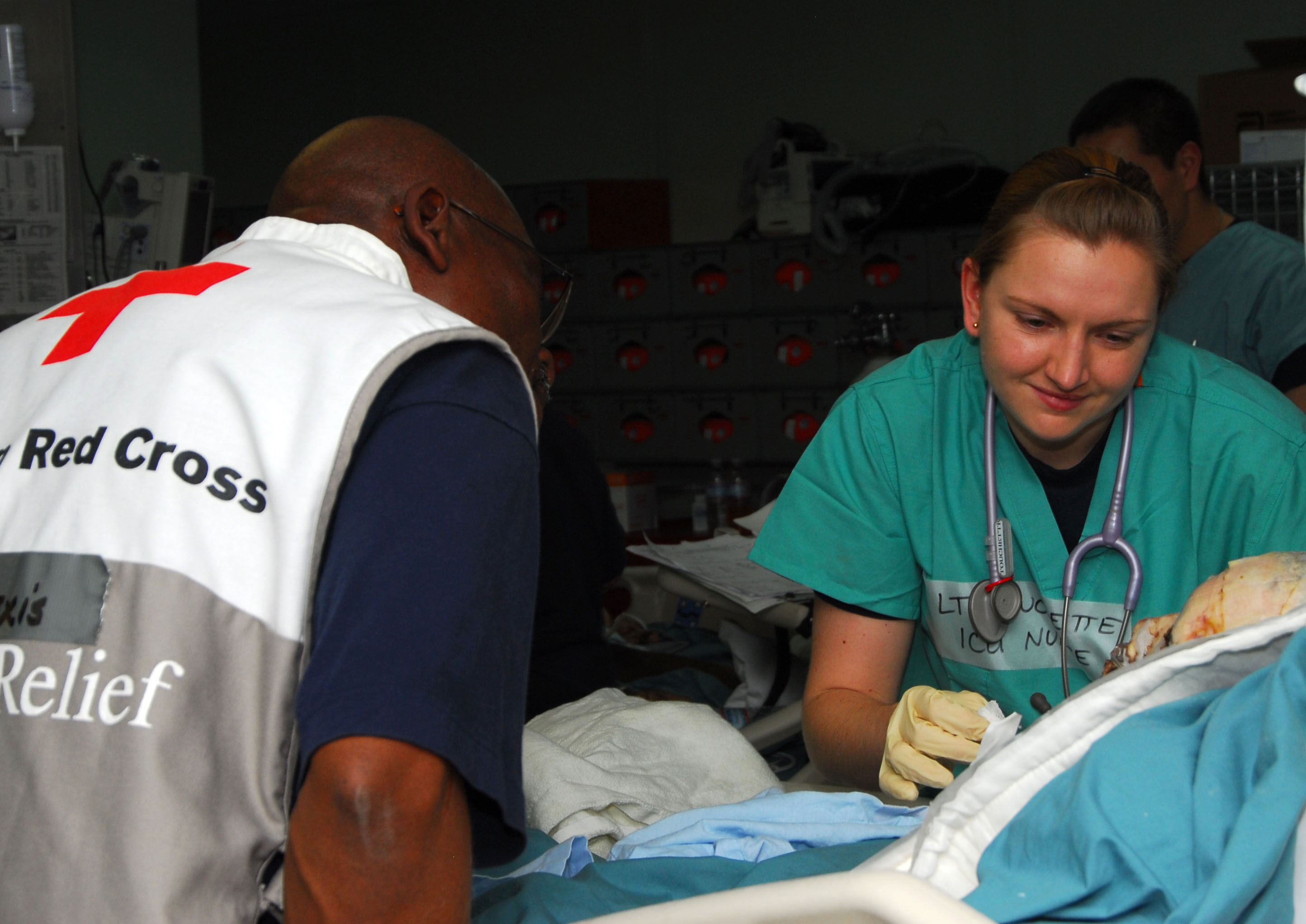 U.S. Navy Lt. Lindsay Touchette (right) cares for a burn victim in an intensive care unit ward aboard Military Sealift Command hospital ship USNS Comfort (T-AH 20) with the help of Alex Alexis, an American Red Cross translator, off the coast of Port-au-Prince, Haiti, on Jan. 24, 2010. The Comfort is supporting Operation Unified Response in the wake of the 7.0-magnitude earthquake that hit Haiti on Jan. 12, 2010.